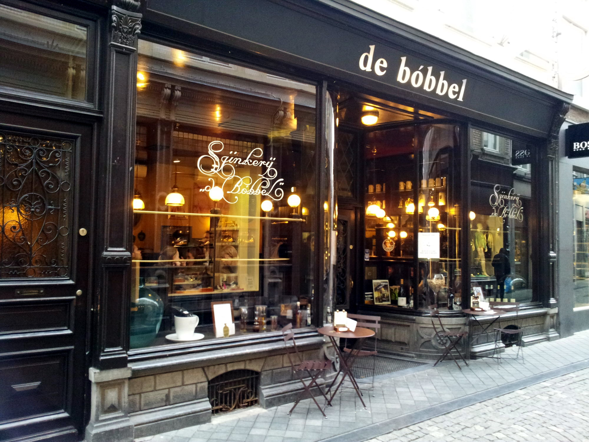 Maastricht, the Netherlands. View of a popular Maastricht bar at Wolfstraat in the old part of town.